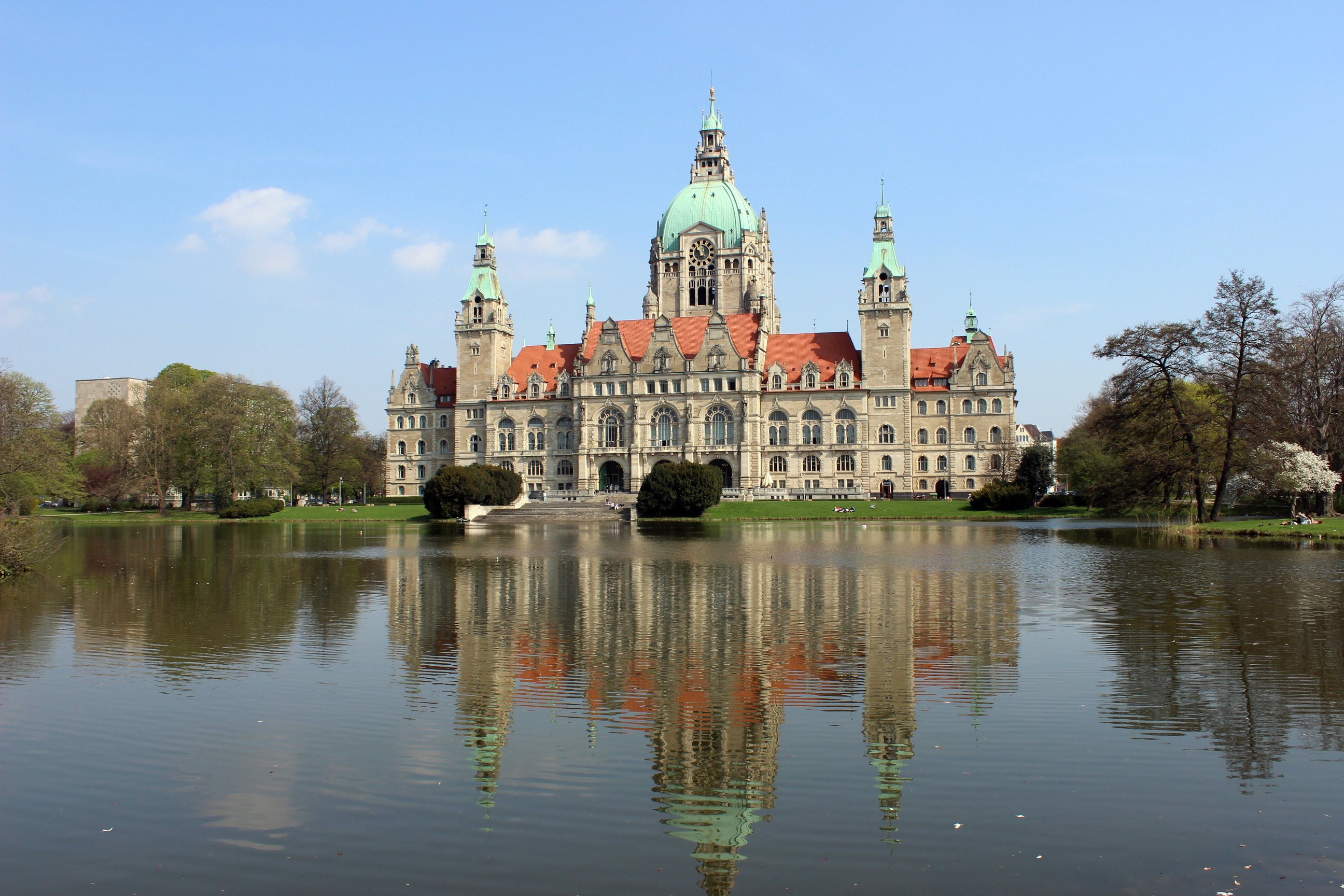 New City Hall of Hannover